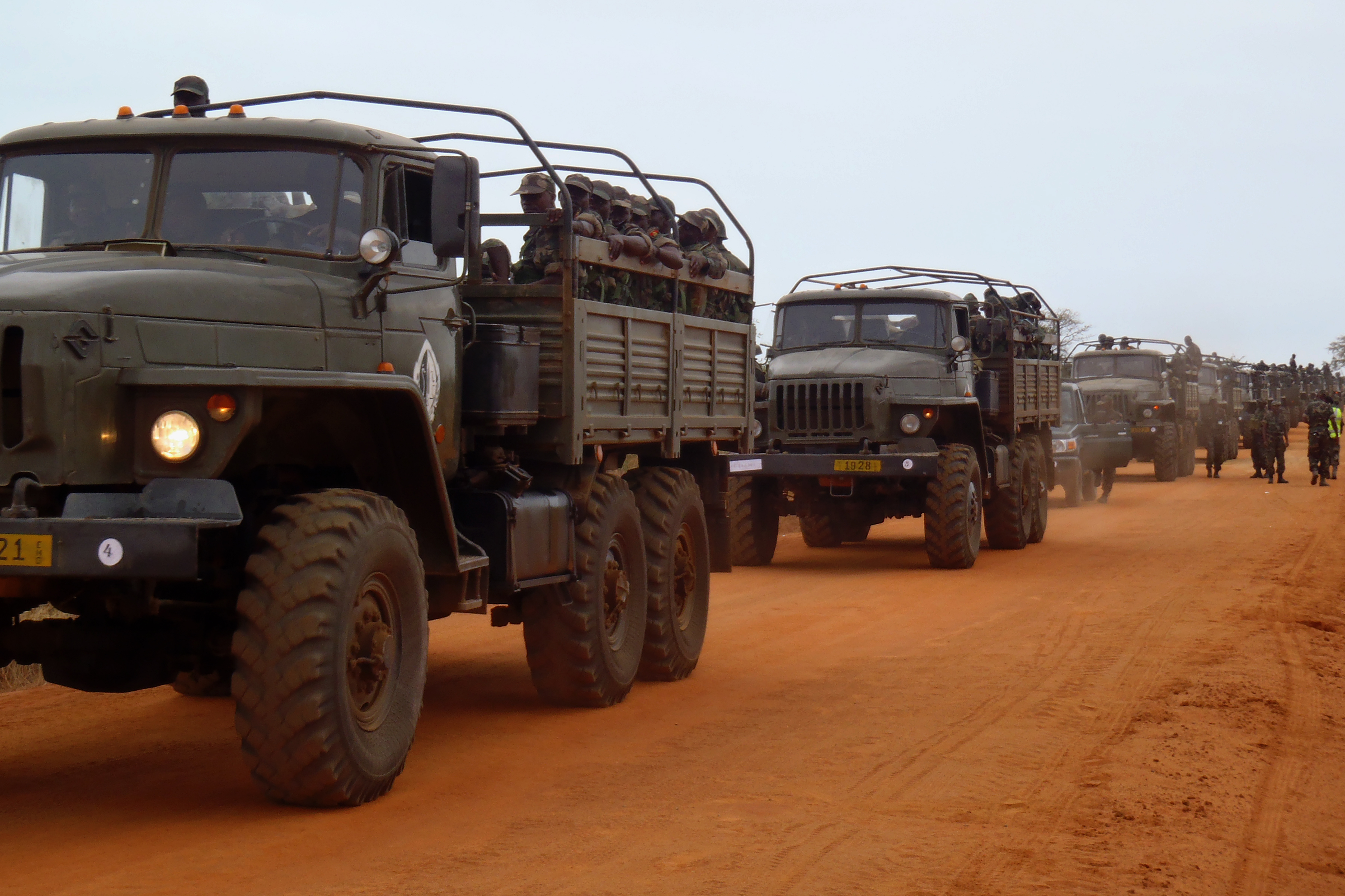 Ural trucks during the military exercise Kwanza 2010 in Angola in June 2010.